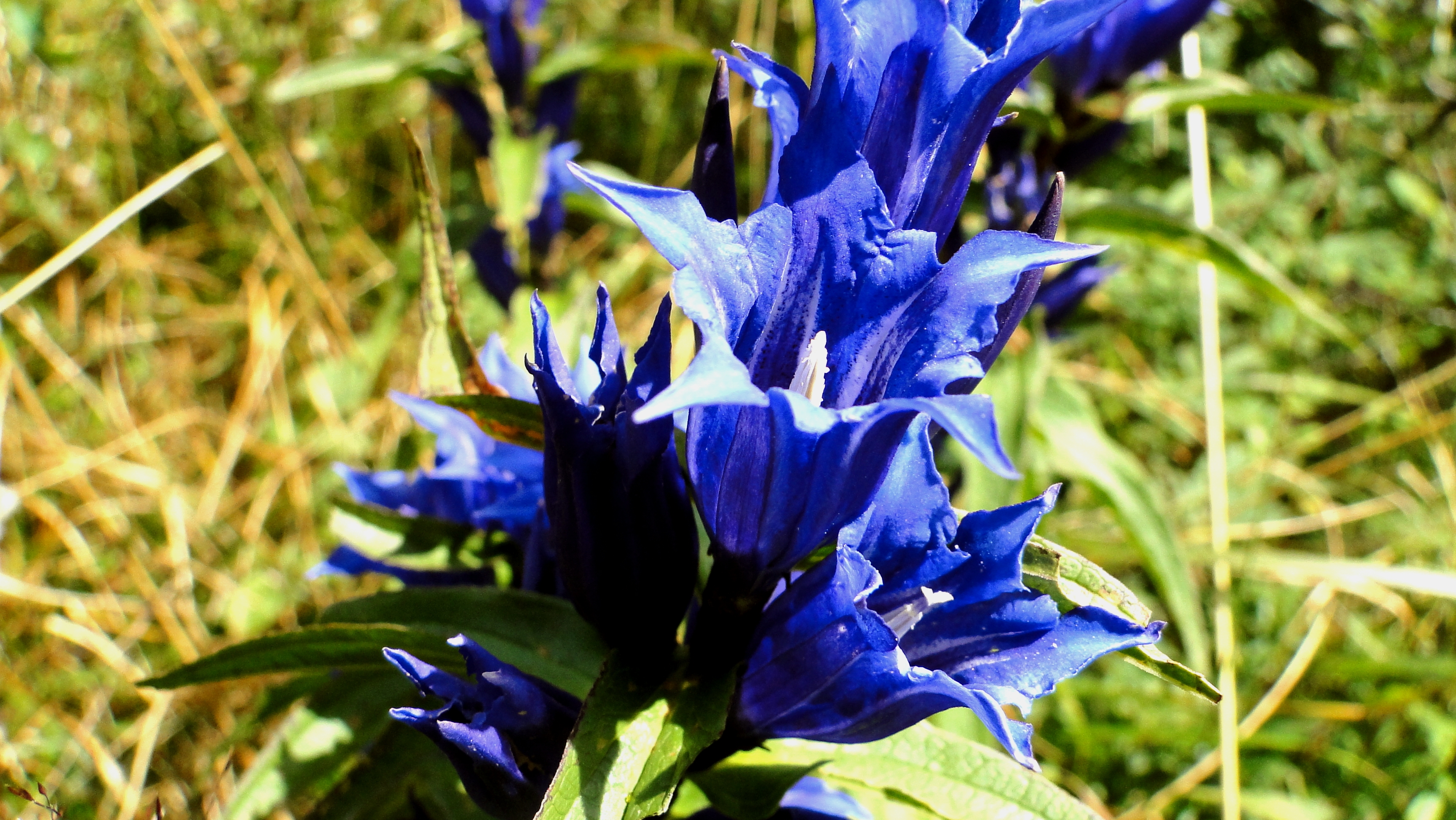 genziane paularo